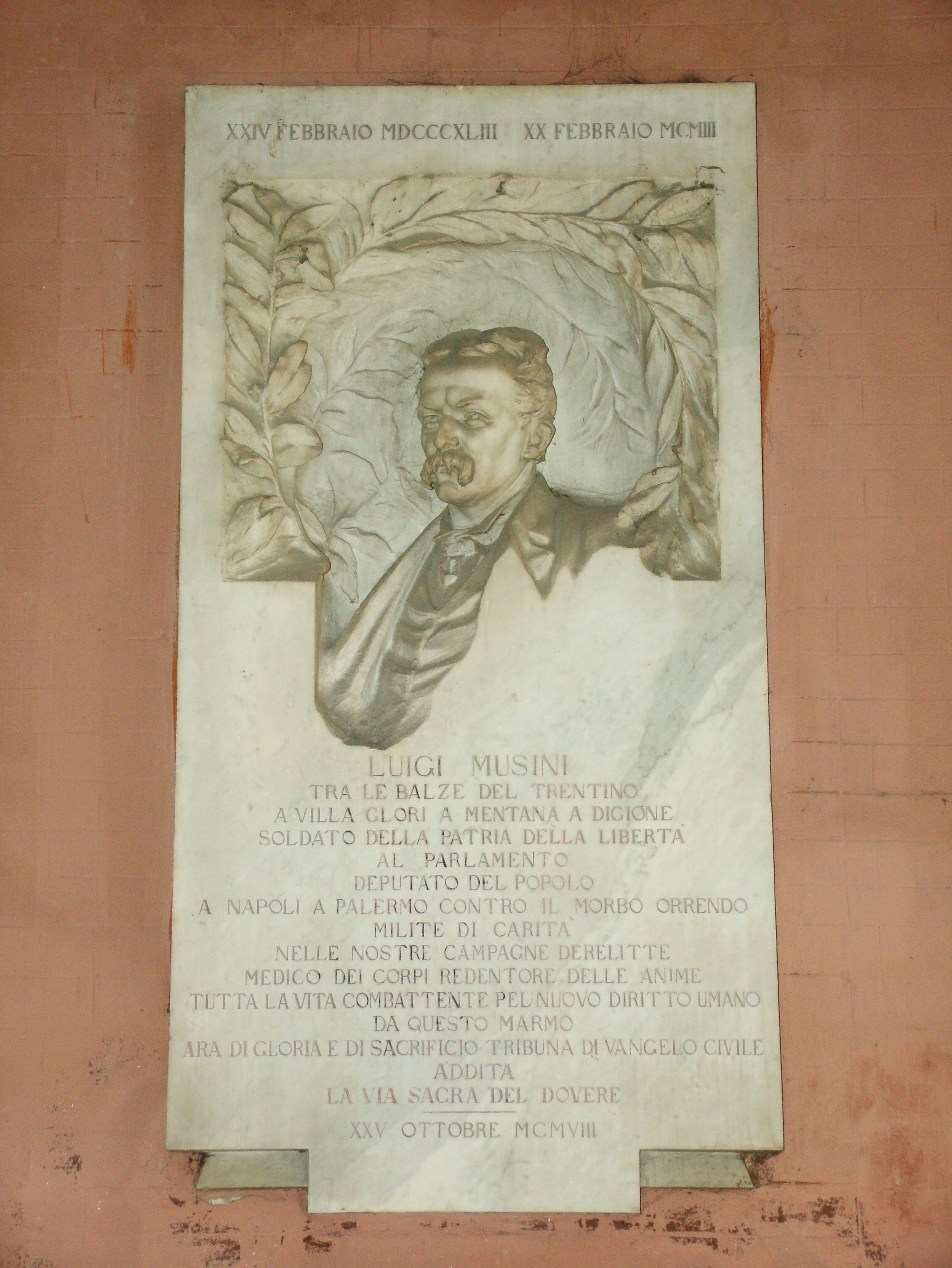 Bust an plaque in honor of Luigi Musini place at the town hall of Fidenza, province of Parma, Italy.